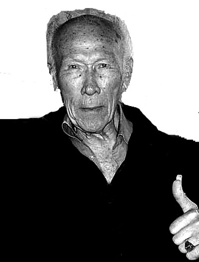 Verdi Phefferkorn von Offenbach (Bandung 1922), better known as ‘Paatje Phefferkorn’, is an iconic Indo (Eurasian) practitioner of the Indonesian martial art Pencak Silat in the Netherlands. As one of its best known teachers he has played an important role in increasing the popularity of this Martial Art in the Netherlands and Europe. Paatje Phefferkorn is also the creator of the informal Indo flag and emblem.